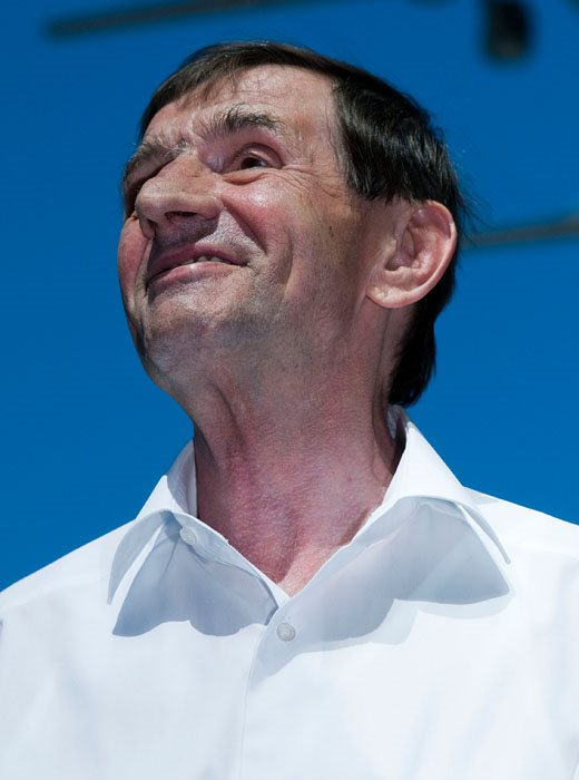 Volodymyr Semenovych Boiko, Ukrainian politician and businessman, member of the Ukrainian Verkhovna Rada. President of FC Illichivets Mariupol